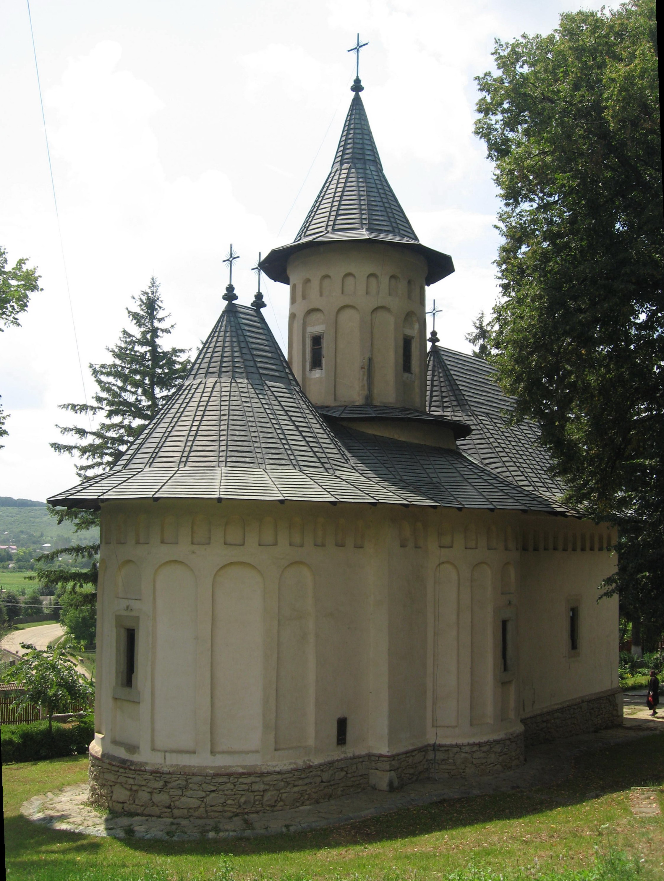 Coşula 01